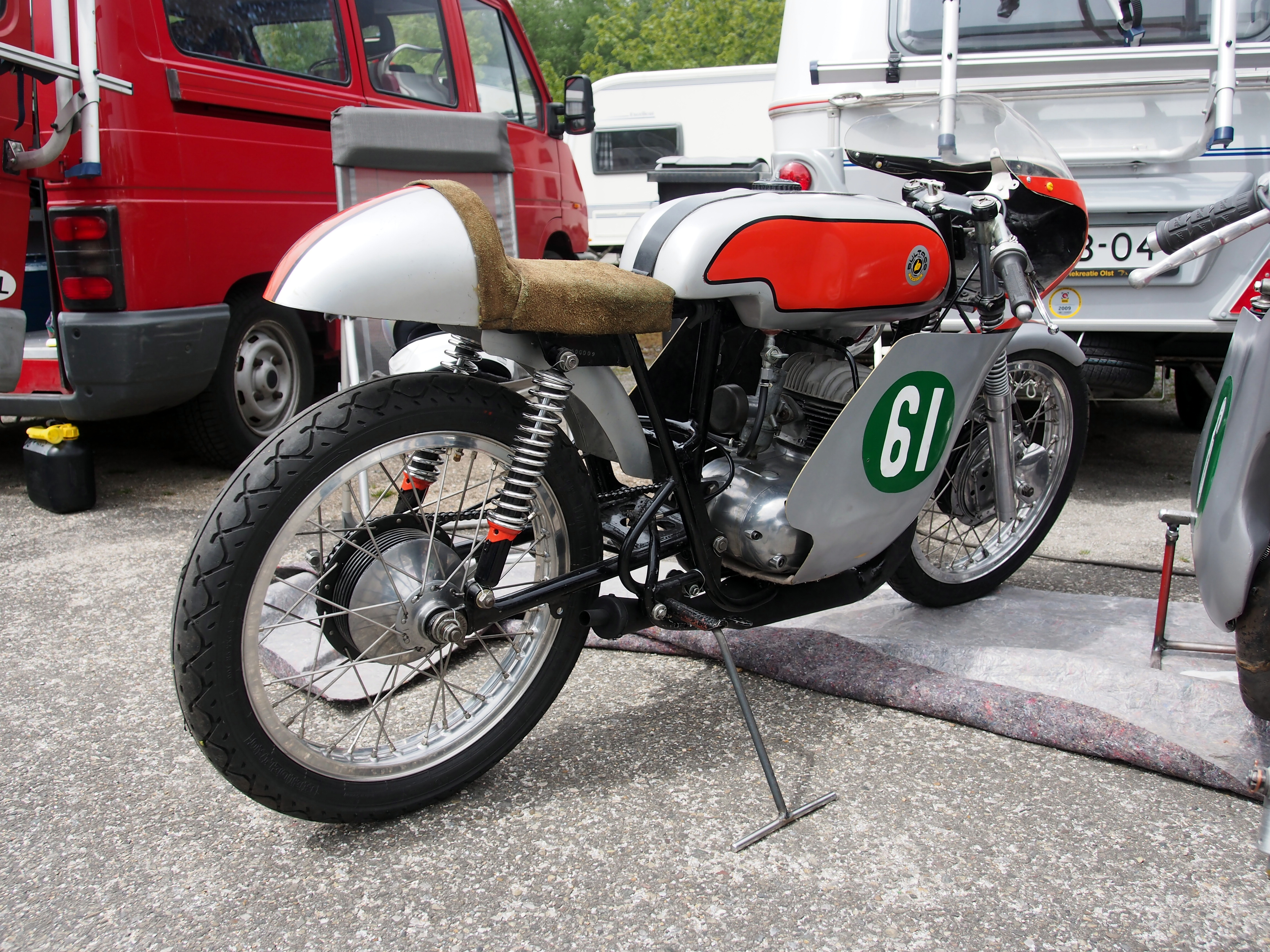 Photographed at Rockanje, The Netherlands.